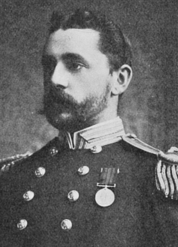 Admiral Sir Percy Moreton Scott, 1st Baronet GCB KCVO (10 July 1853 – 18 October 1924). Caption Captain Percy Scott C.B..